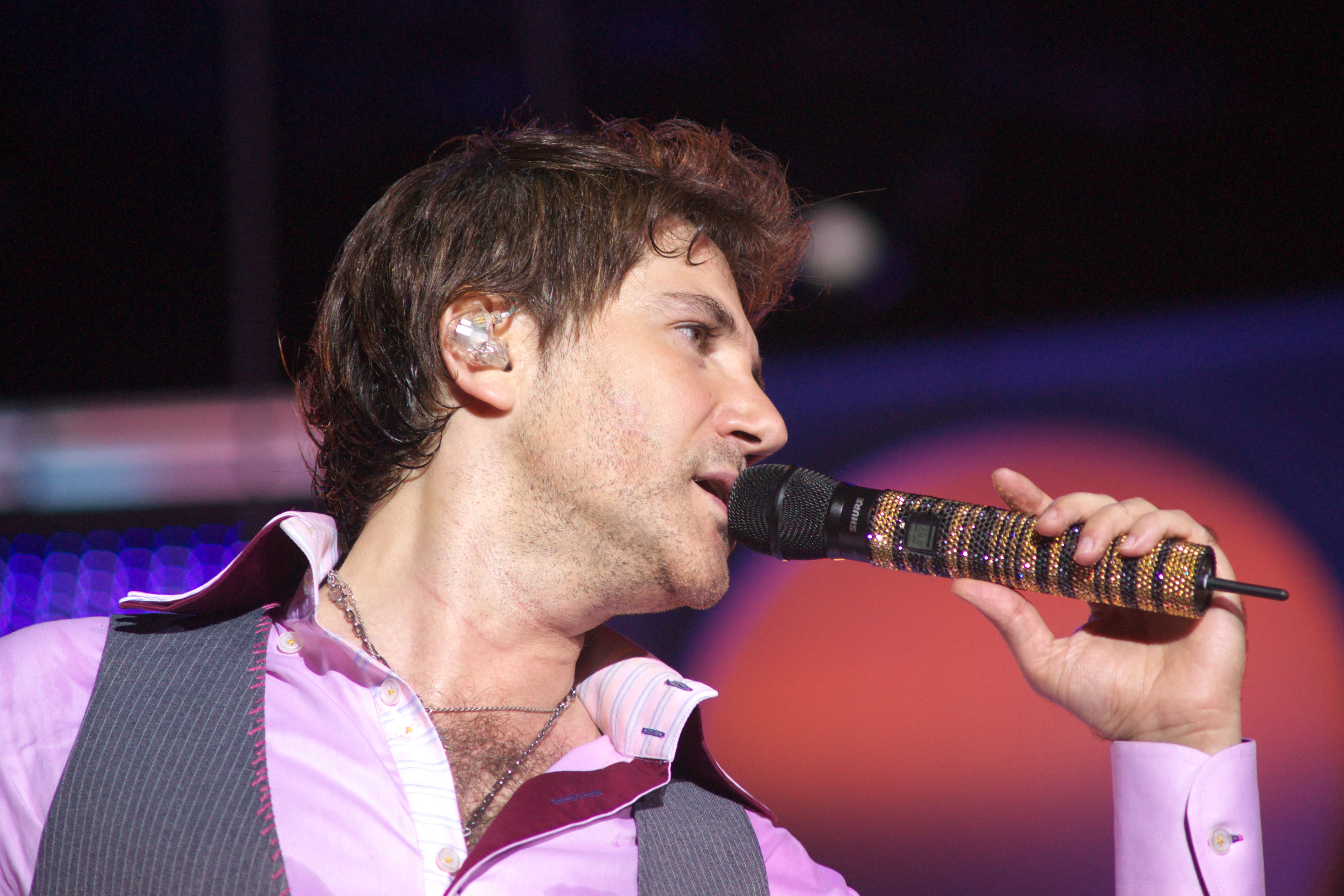 Avraam Russo a Russian-Armenian pop singer.